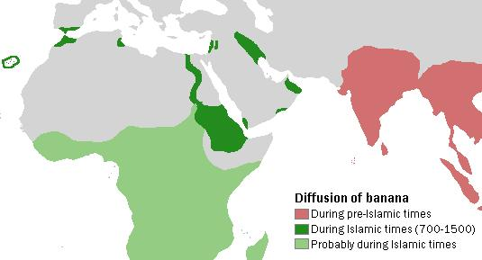 Author: Bless_sins Source: Watson, Andrew. Agricultural innovation in the early Islamic world, New York: Cambridge University Press, 1983. Made from a blank world map with free license.